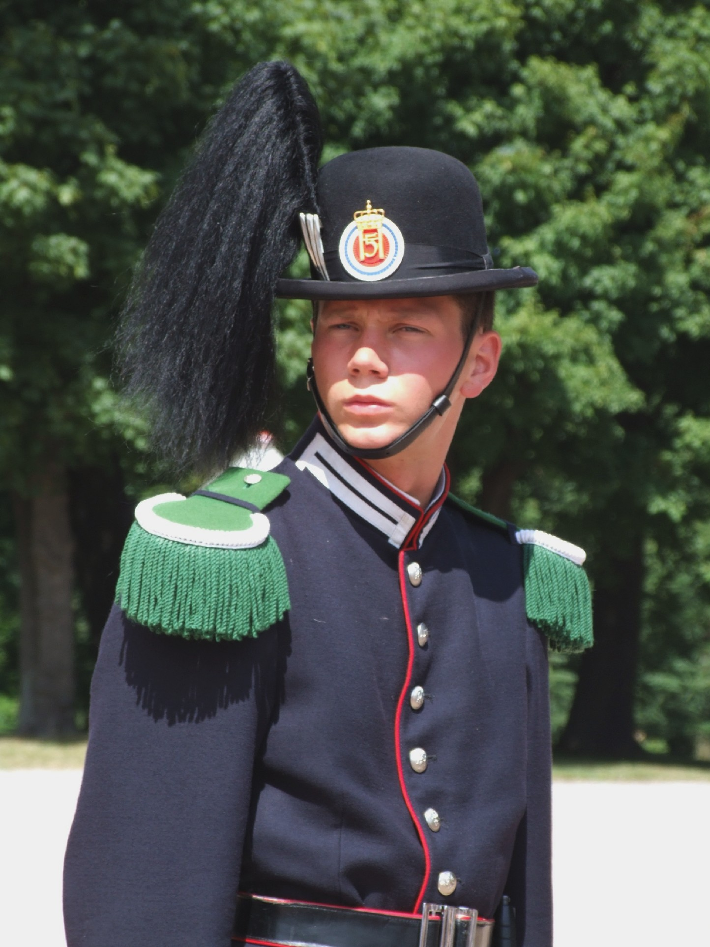 Royal Guardsman (Hans Majestet Kongens Garde) in Oslo